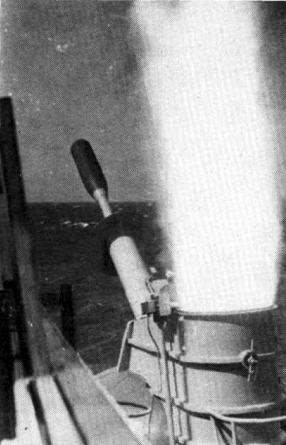 A RUR-4 Weapon Alpha is launched from the U.S. Navy anti-submarine destroyer USS Walker (DDE-517), circa 1958.